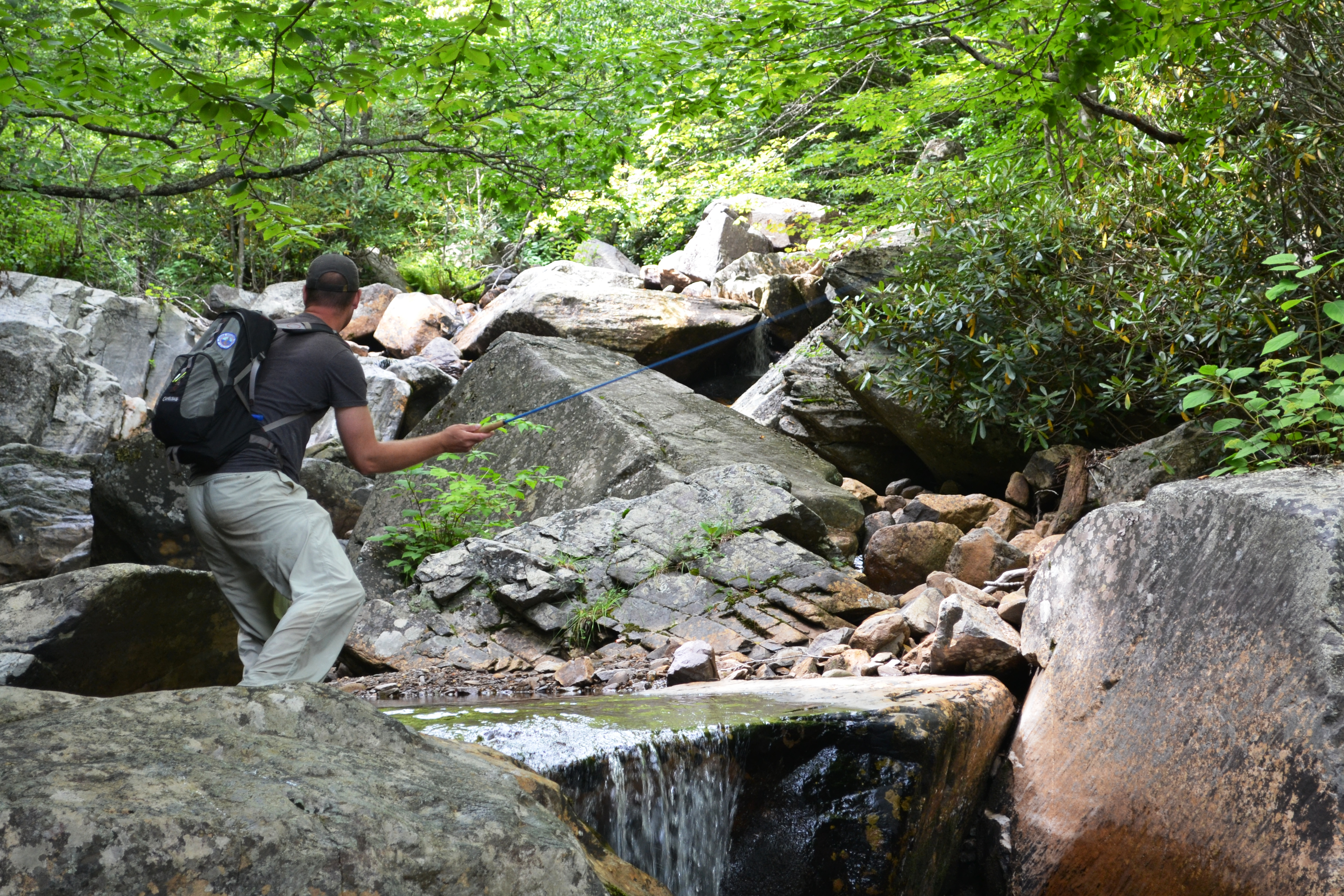 Tenkara fly fishing with Blue Ridge Discovery Center on Wilson Creek